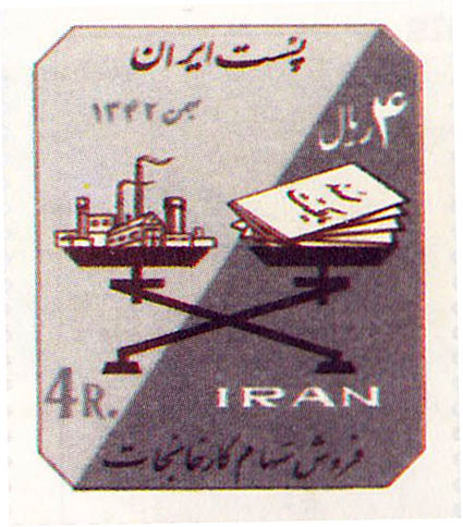 Sale of Shares of Factories (privatization of Factories)